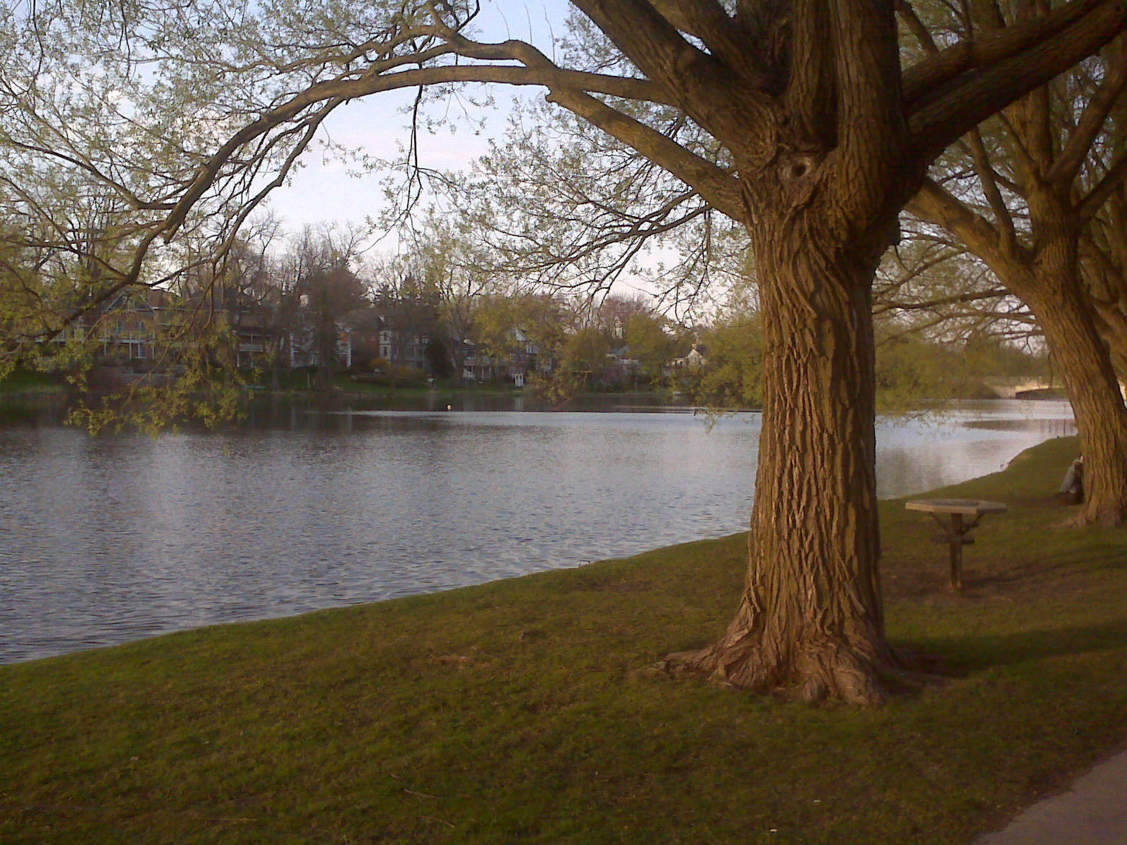 Lake Victoria, part of the Avon River in Stratford Ontario